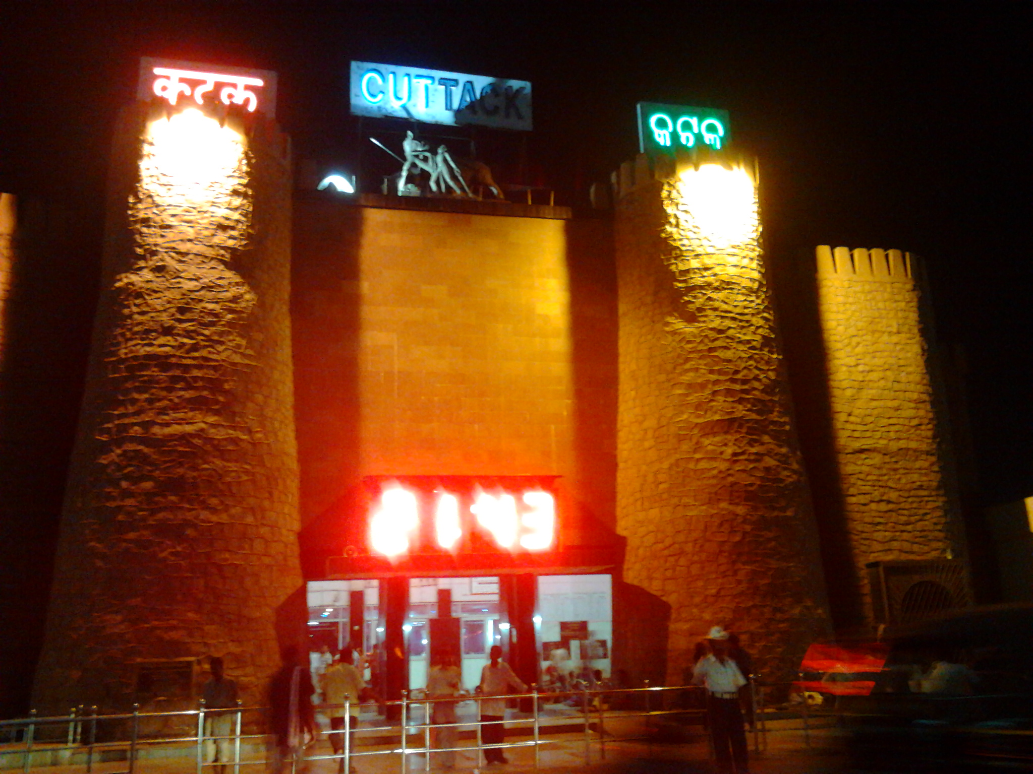 Cuttack Railway Station, Cuttack, Odisha, India.